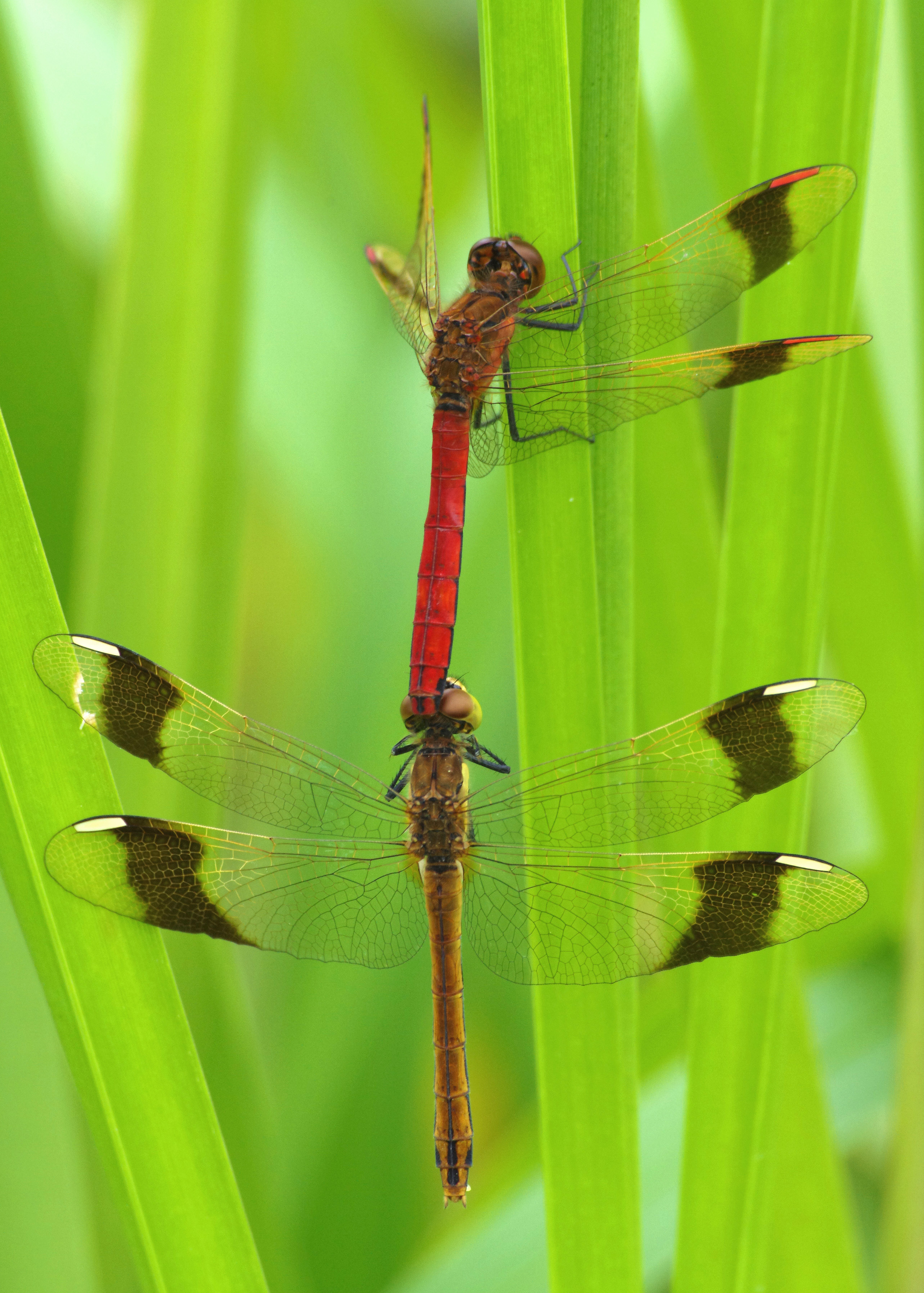 The dragonfly Banded Darter, Sympetrum pedemontanum, pair mating.